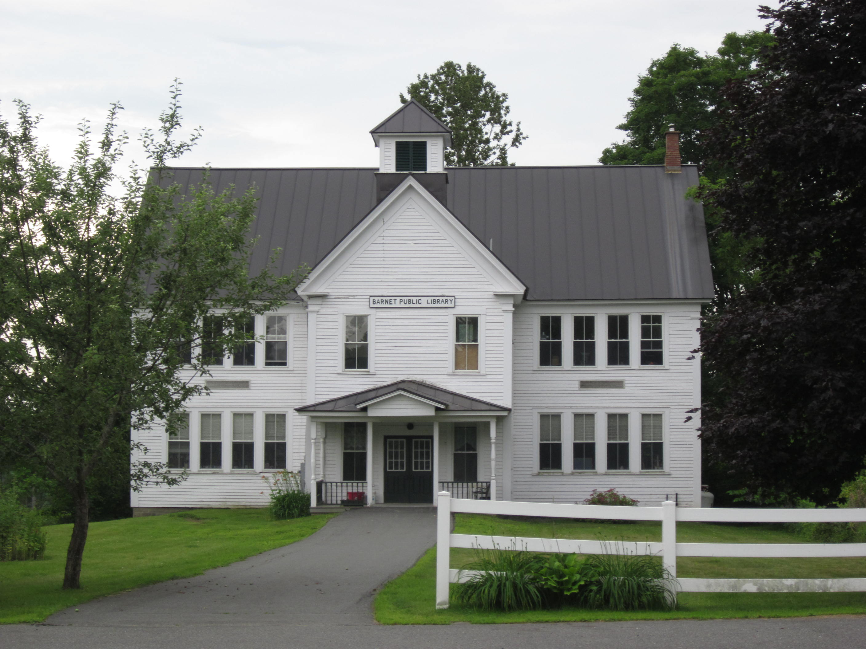 Public Library in Barnet, Vermont